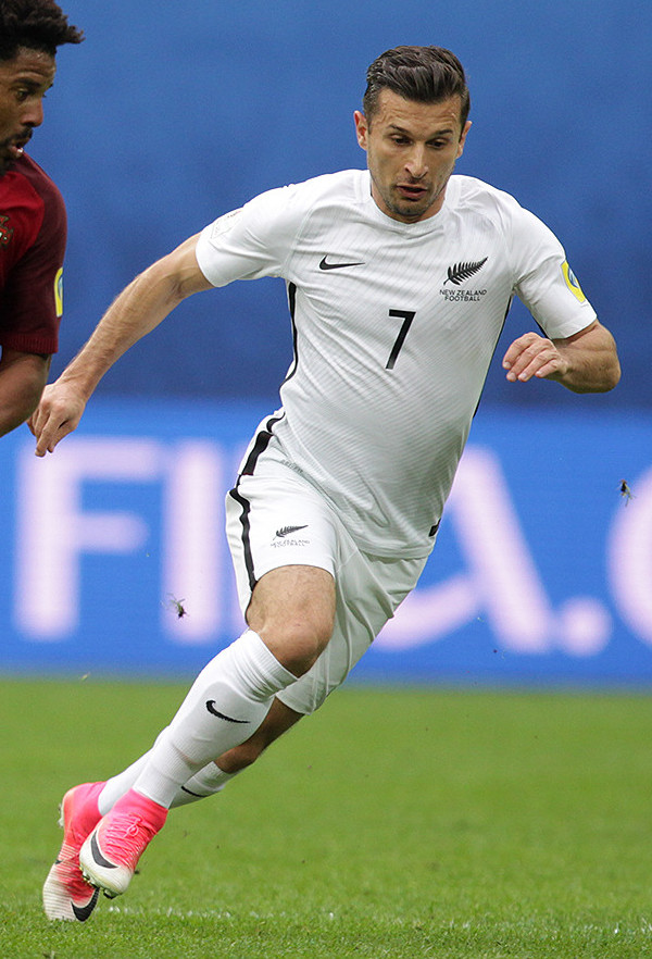 New Zealand VS. Portugal 0 - 4, 24 June 2017